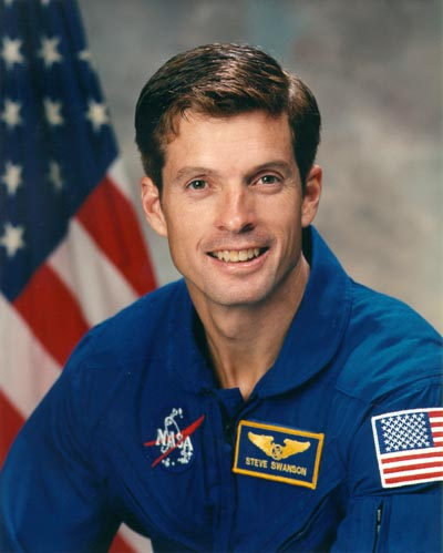 portrait astronaut Steven Swanson